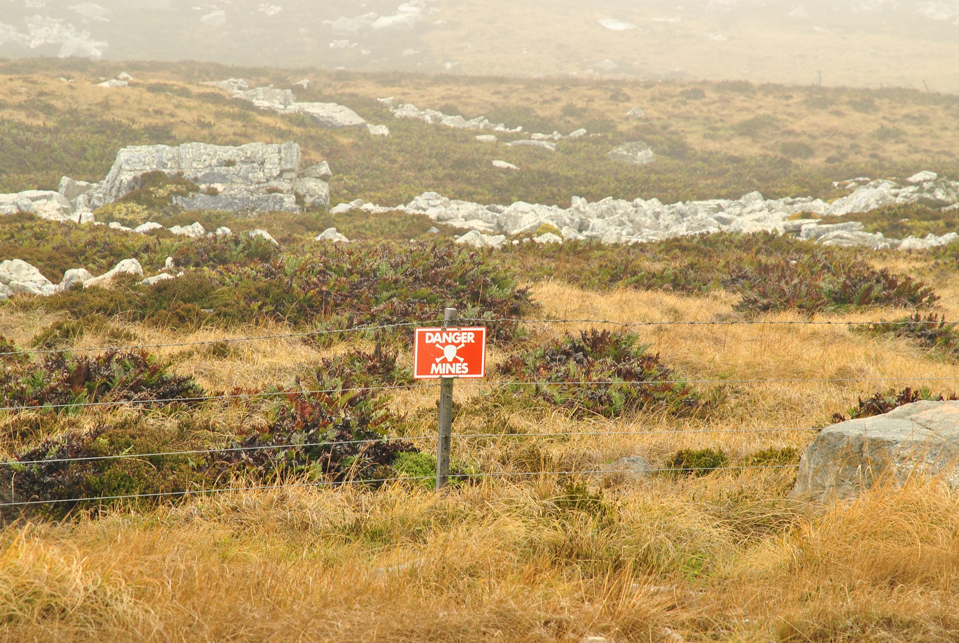 Another minefield beside the Stanley Road